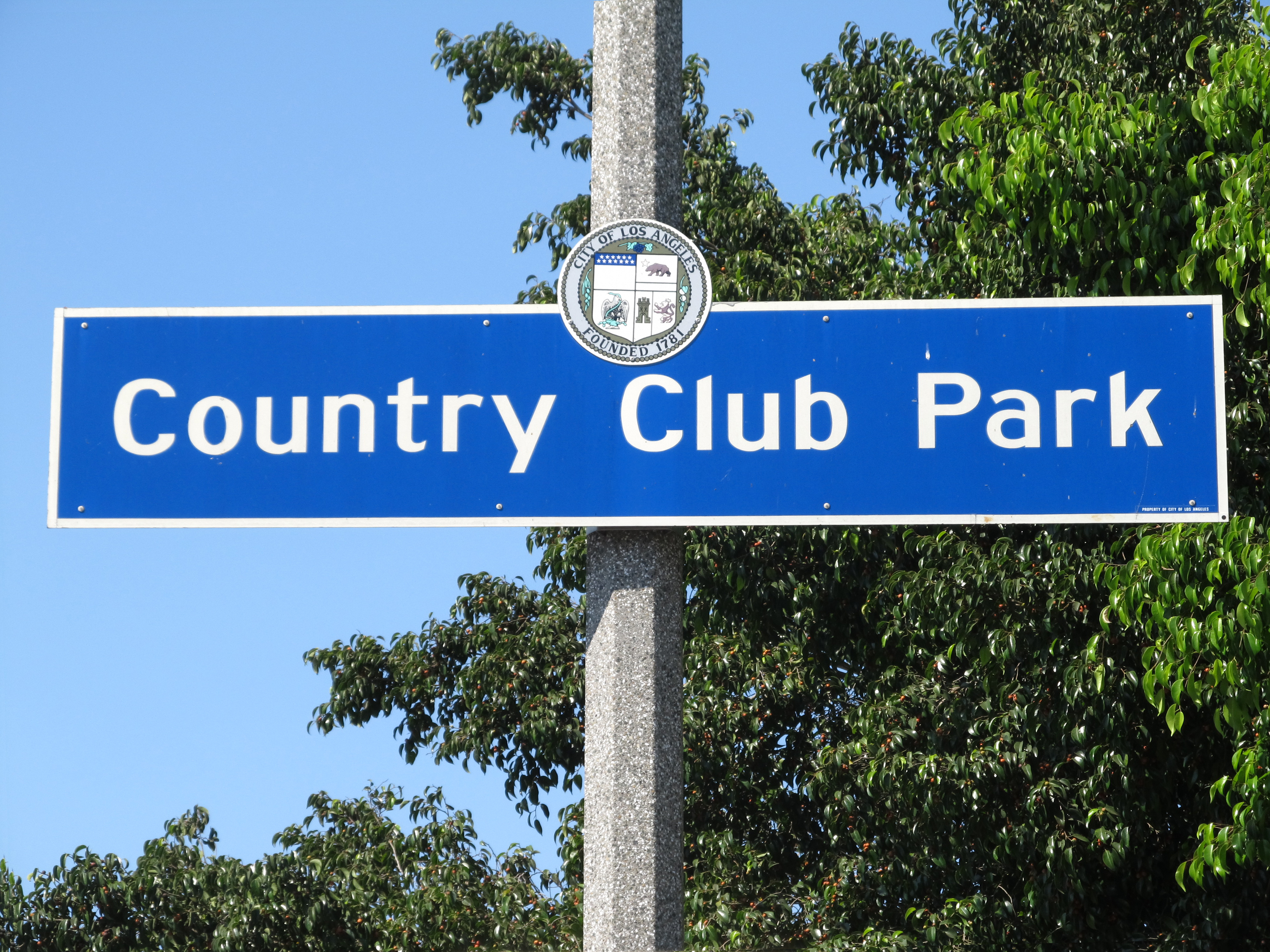 Country Club Park signage located at 1244 Crenshaw Blvd. (just north of Pico Blvd.)